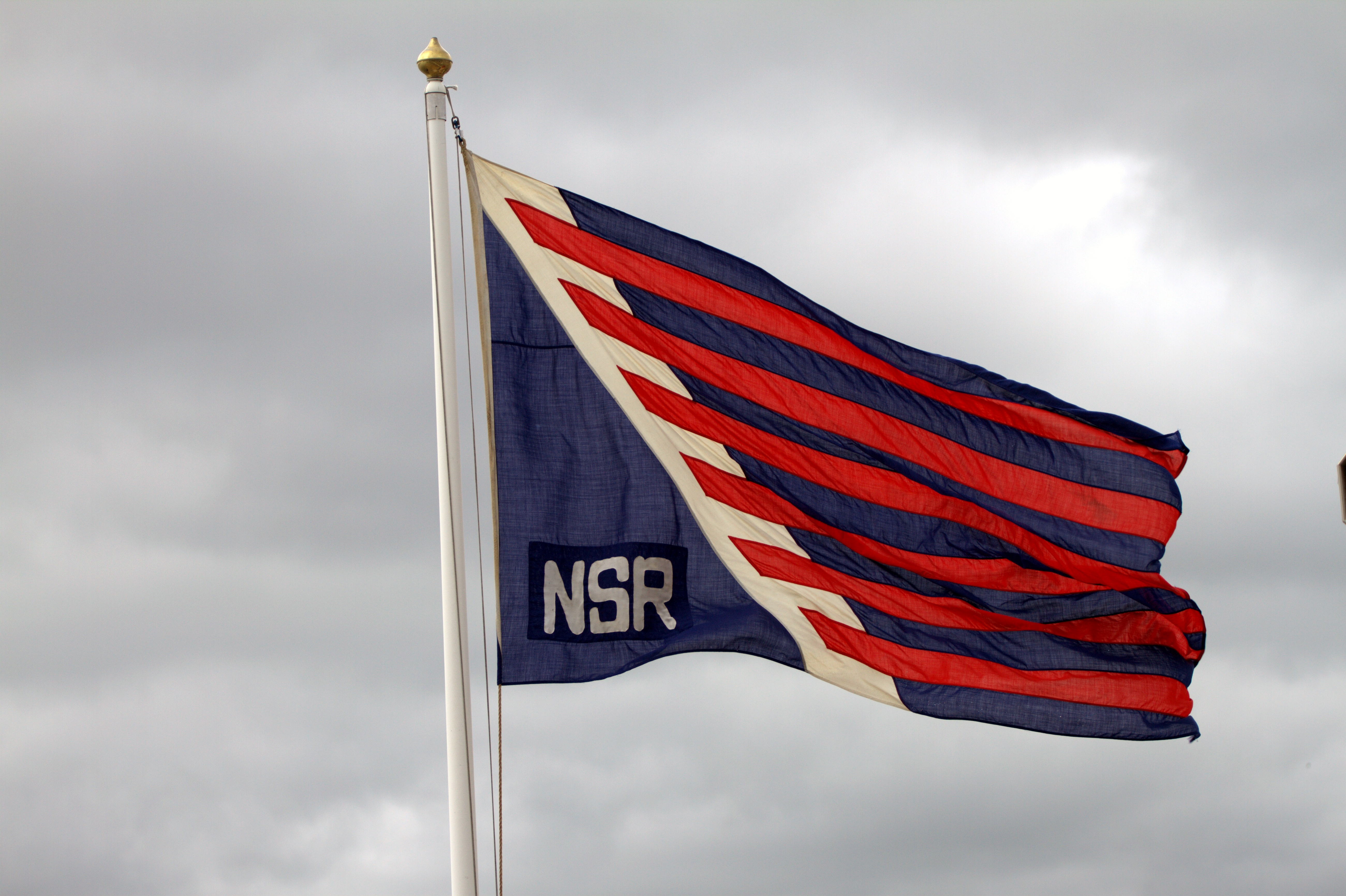 National Schools' Regatta Flag Image - AllMarkOne